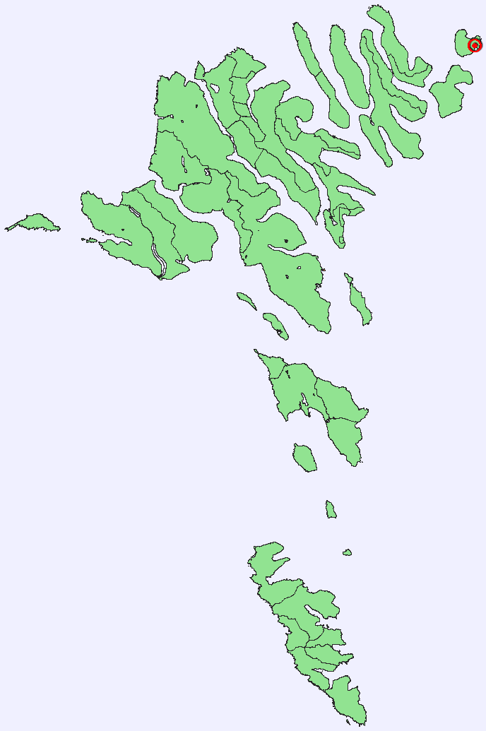 Position of the village Hattarvík on the island of Fugloy, Faroe Islands